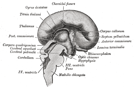 Median sagittal section of brain of human embryo of four months. (Marchand.)